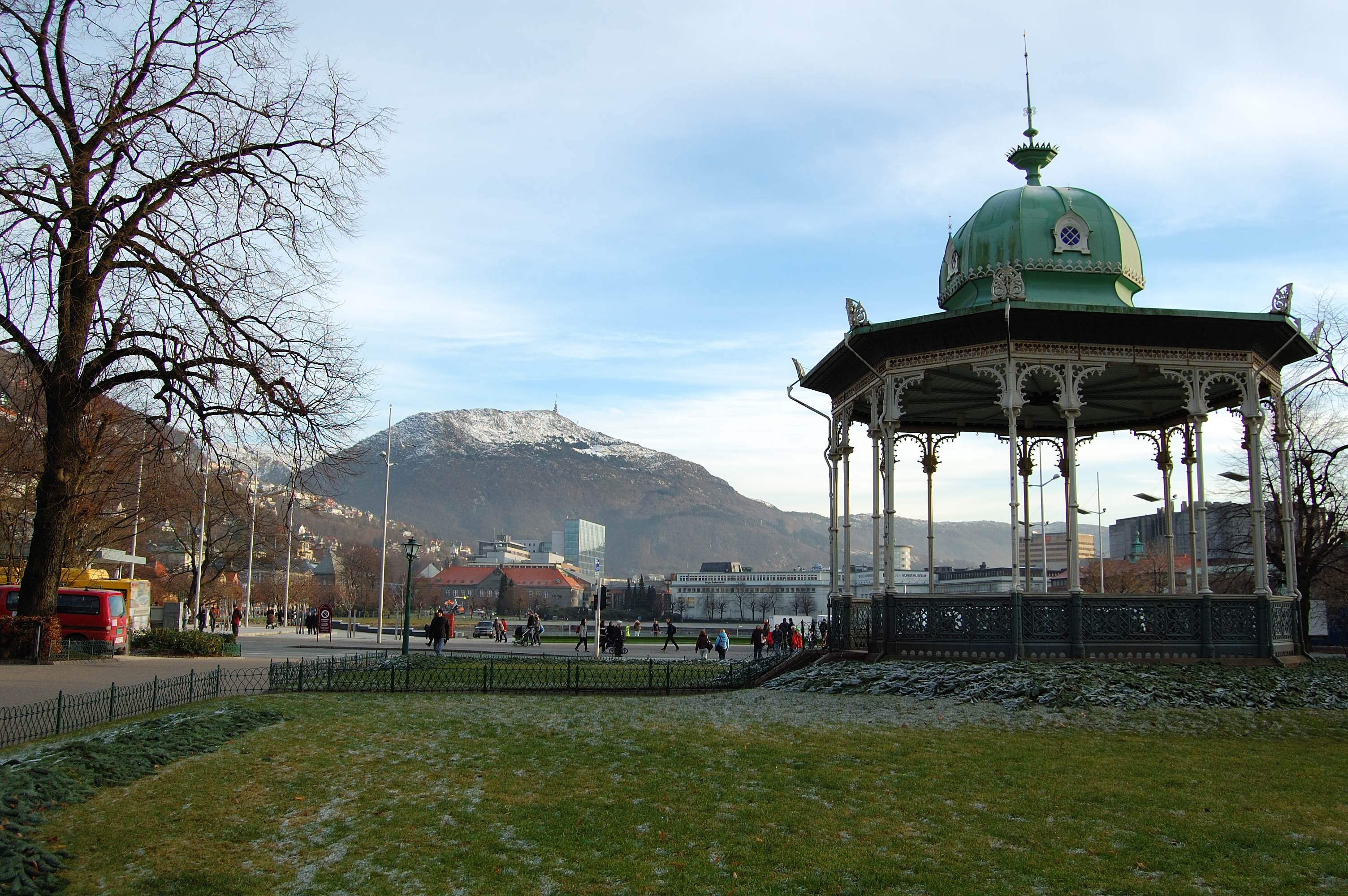 Musikkpavilliongen in Bergen, Norway.